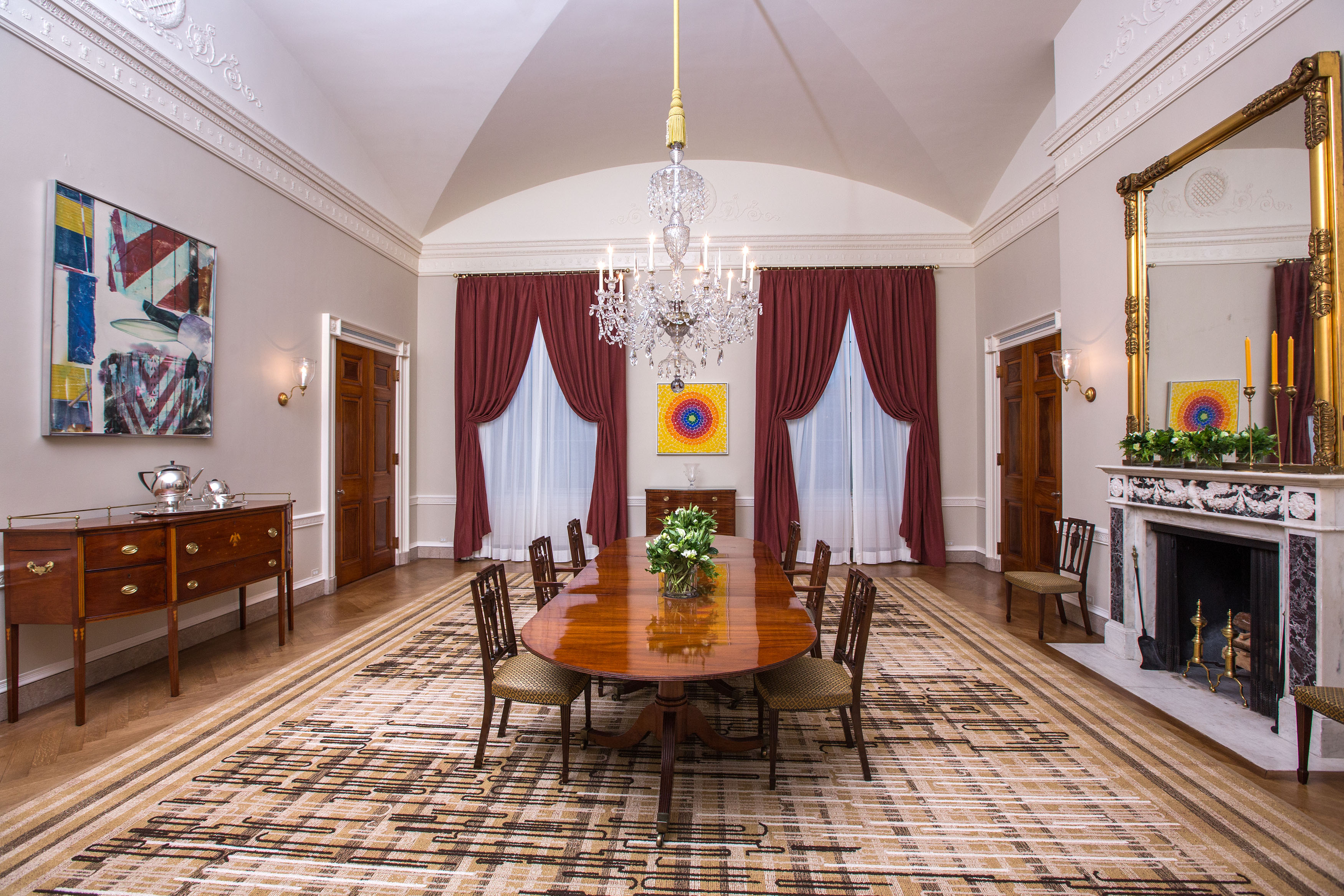 The Family Dining Room of the White House on February 9, 2015, after its redecoration by First Lady Michele Obama. The room opened to public view for the first time in White House history on Tuesday, February 10, 2015.